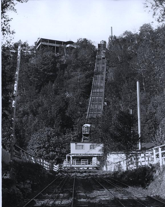 Photograph, Mount Royal Funicular Railway, Montreal, QC, about 1900 Wm. Notman & Son. Silver salts on glass - Gelatin dry plate process - 25 x 20 cm